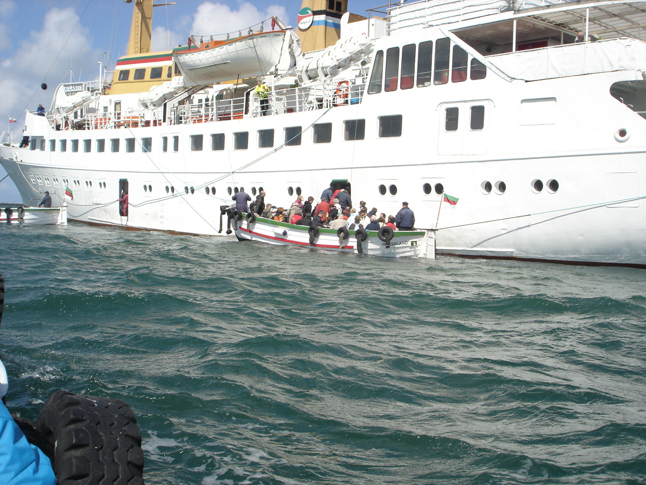 Boerteboats approaching the tourist steamer "Atlantis" to anchor in the roads